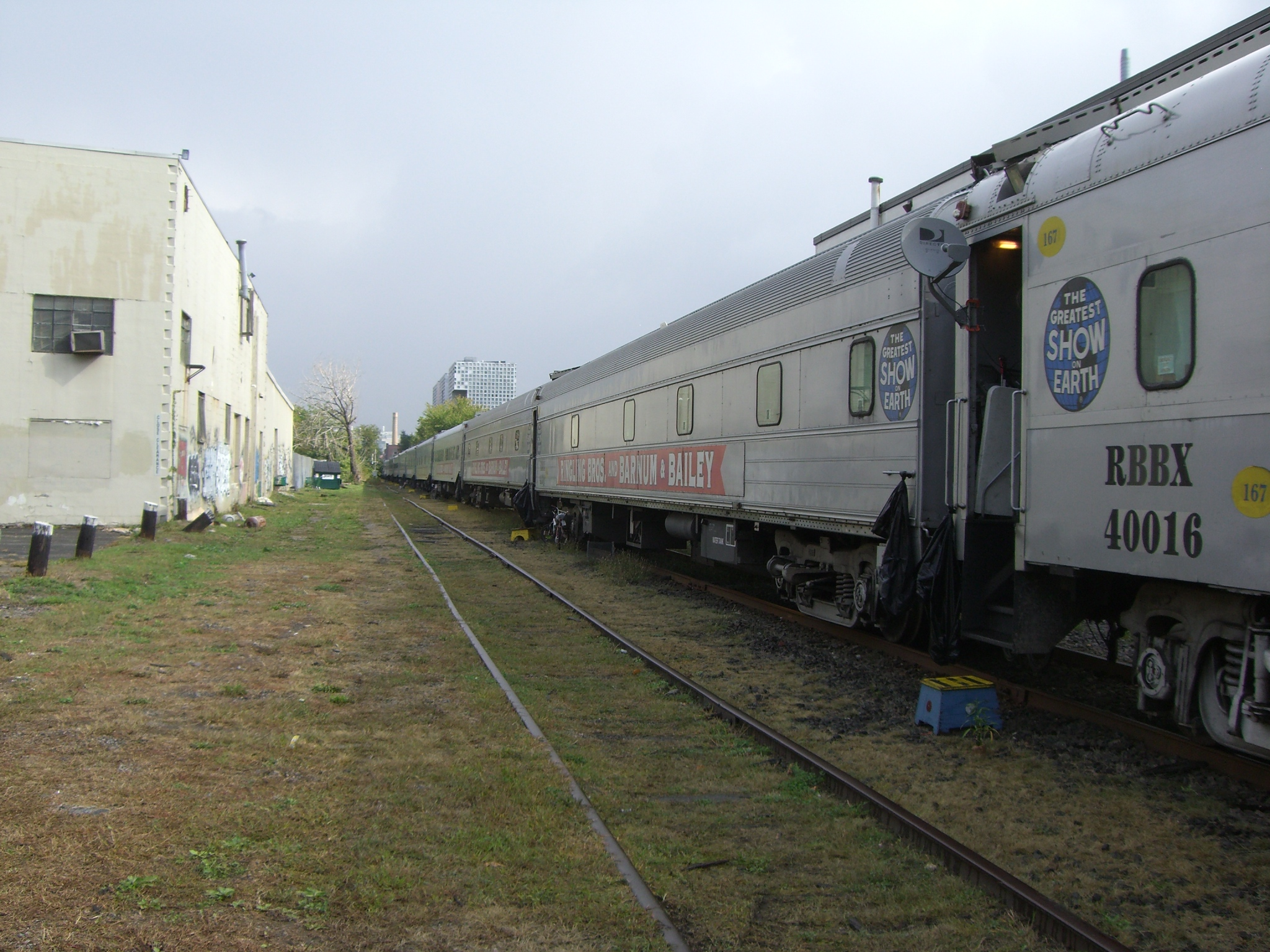 Ringling Brothers & Barnum and Bailey circus train on the Grand Junction Railroad in 2007